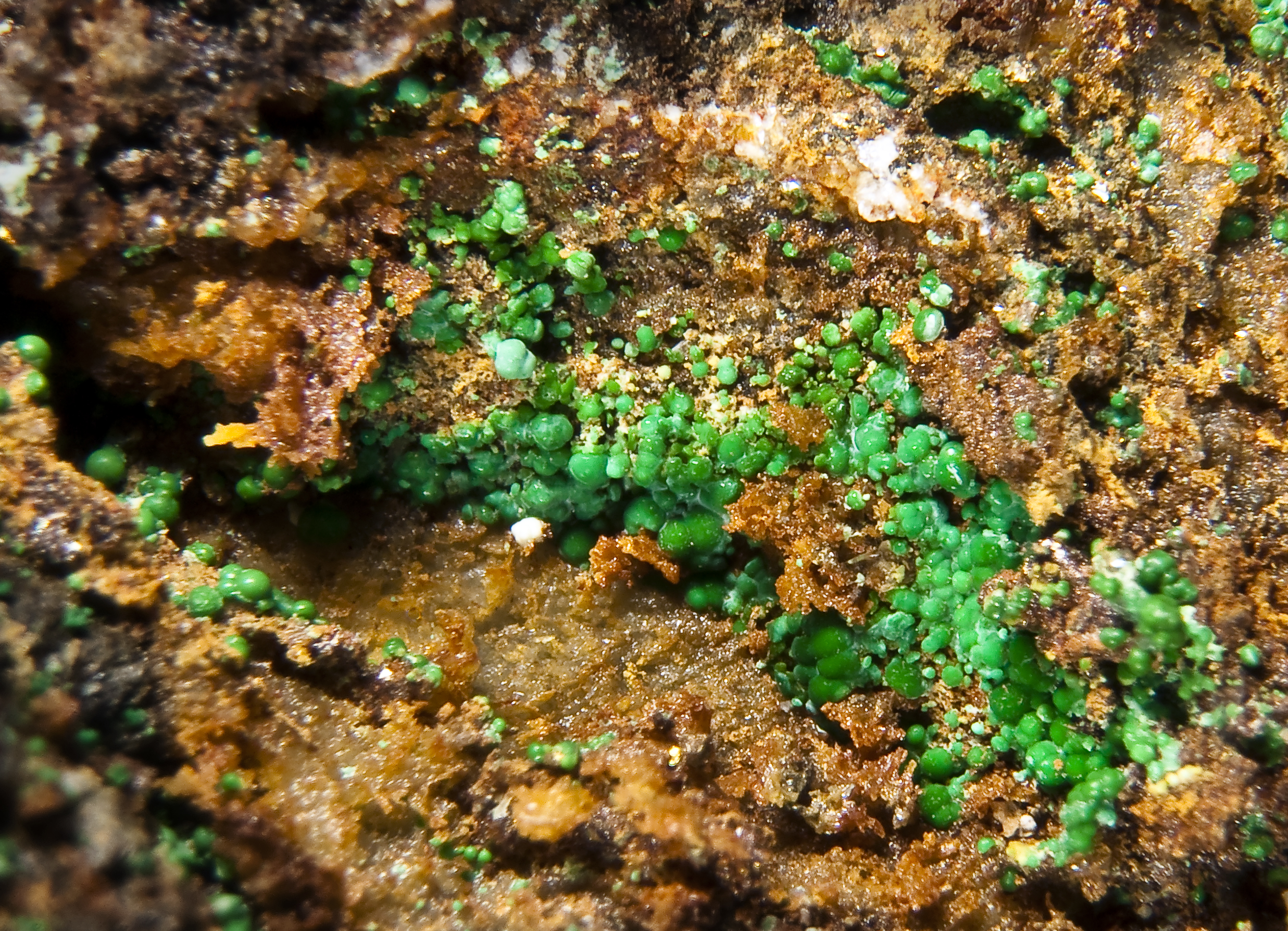 Cornubite - Salsigne mine, Salsigne, Mas-Cabardès, Carcassonne, Aude, Languedoc-Roussillon, France (View 1cm size of spheres 0.25mm)